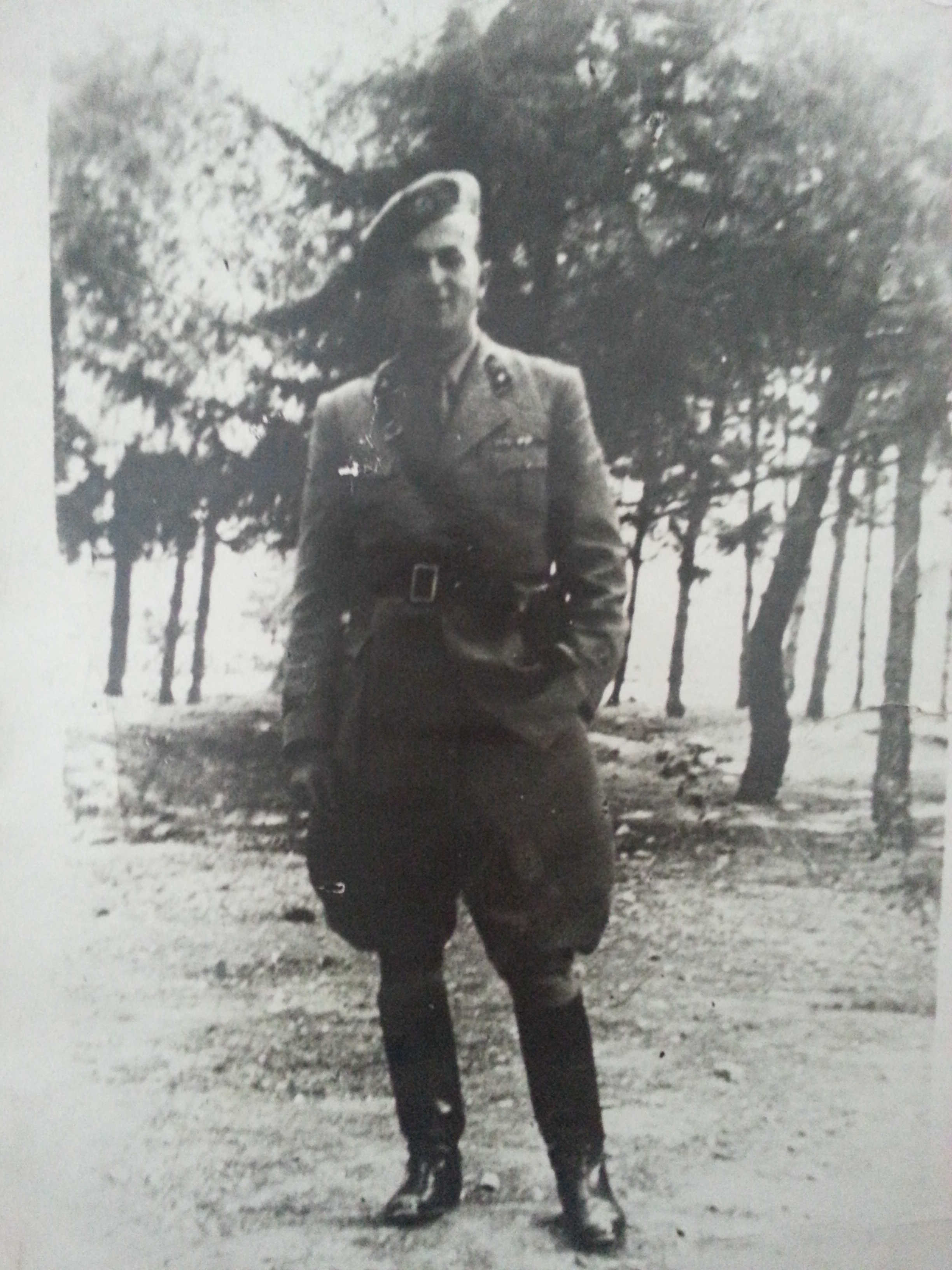 Ten. Enzo Busca San Marco a Pola nel 1943